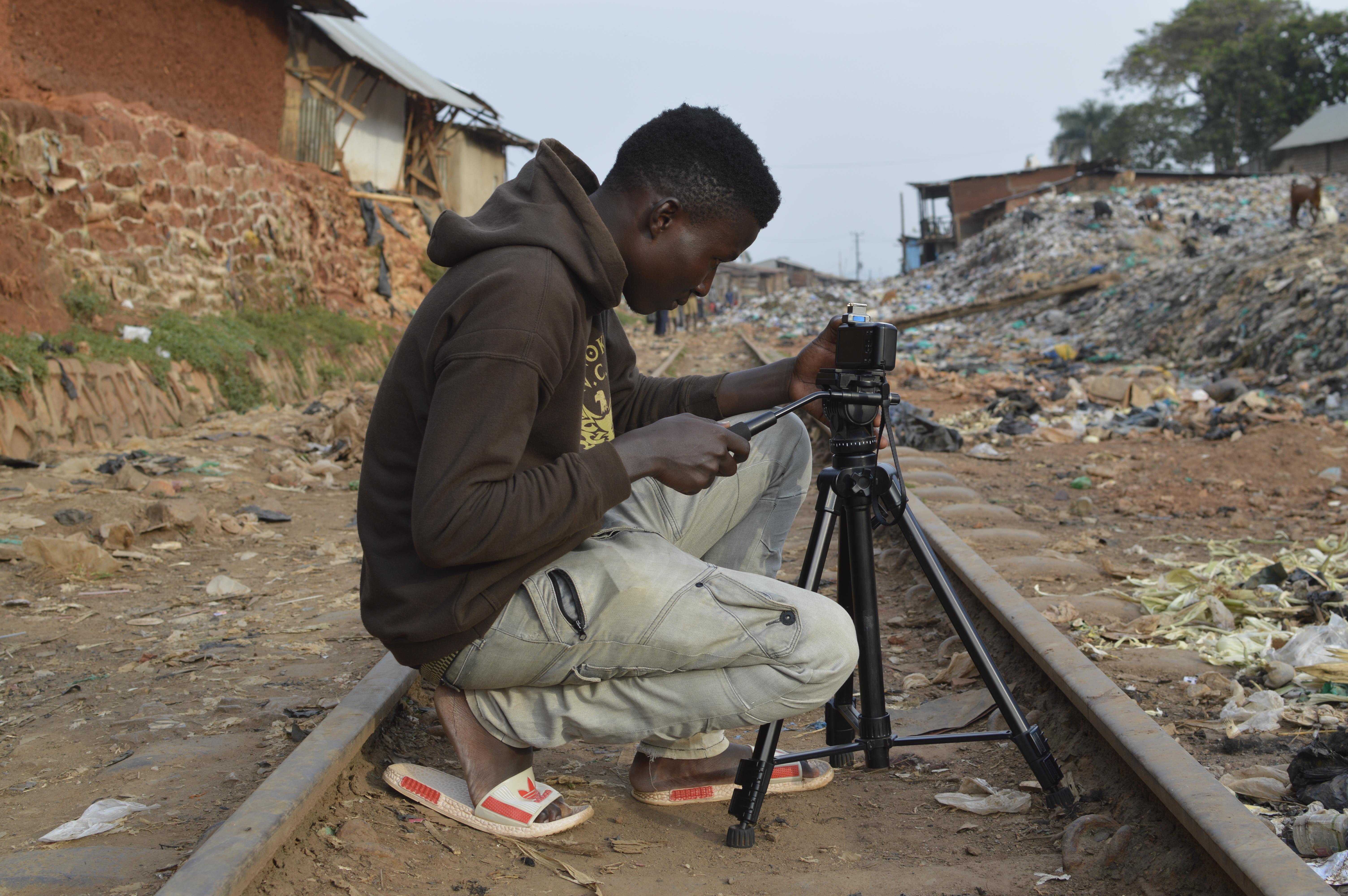 Tony is an up coming film maker with focus on directing and writing, this piece was taken from a scene where he is working on a documentary currently. This is an image of "African people at work" from Uganda